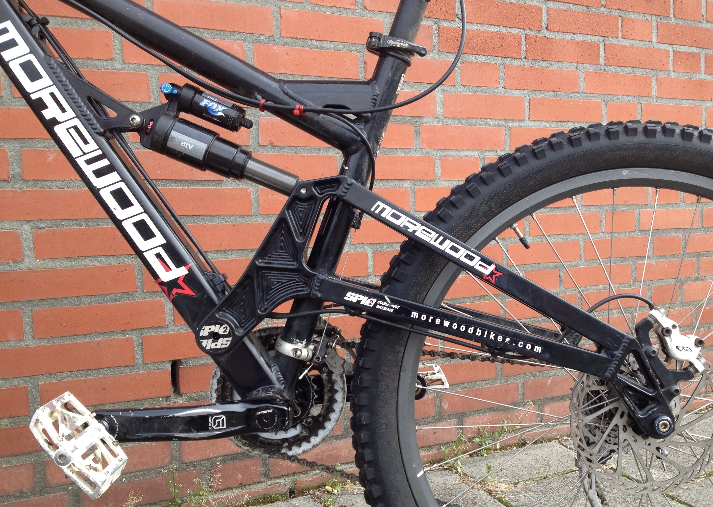 Photo of a single pivot (swingarm) suspension system as found on my 2008 Morewood Mbuzi mountain bike. Photo is of better quality, less cluttered and its just plain more clear to see the suspension's parts than the picture it replaces.